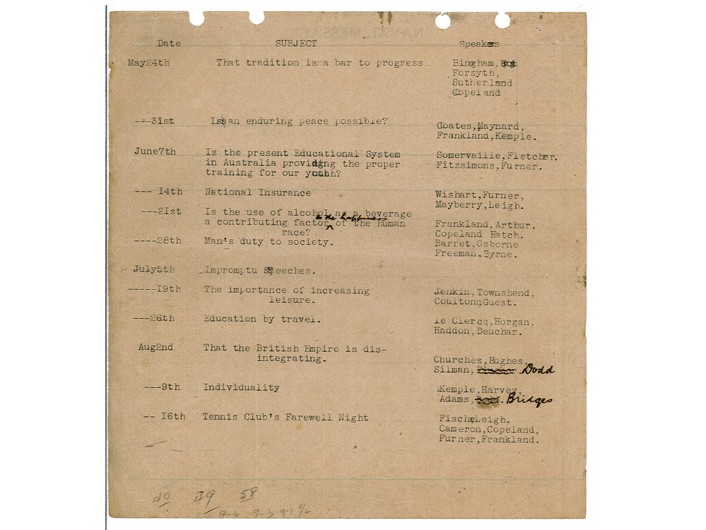 AGH Rostrum Club Changi - Program May to August 1943